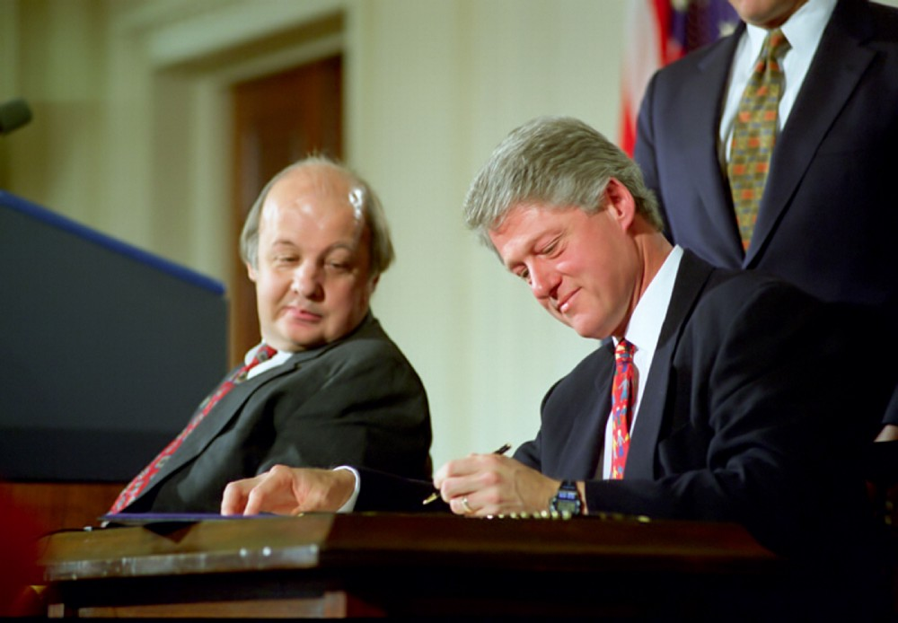 White House photo of bill signing